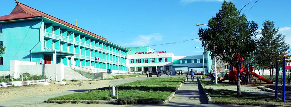 Khujirt Spa Company